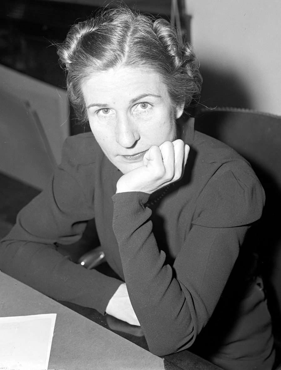 Clara G. McMillan, US Representative from South Carolina